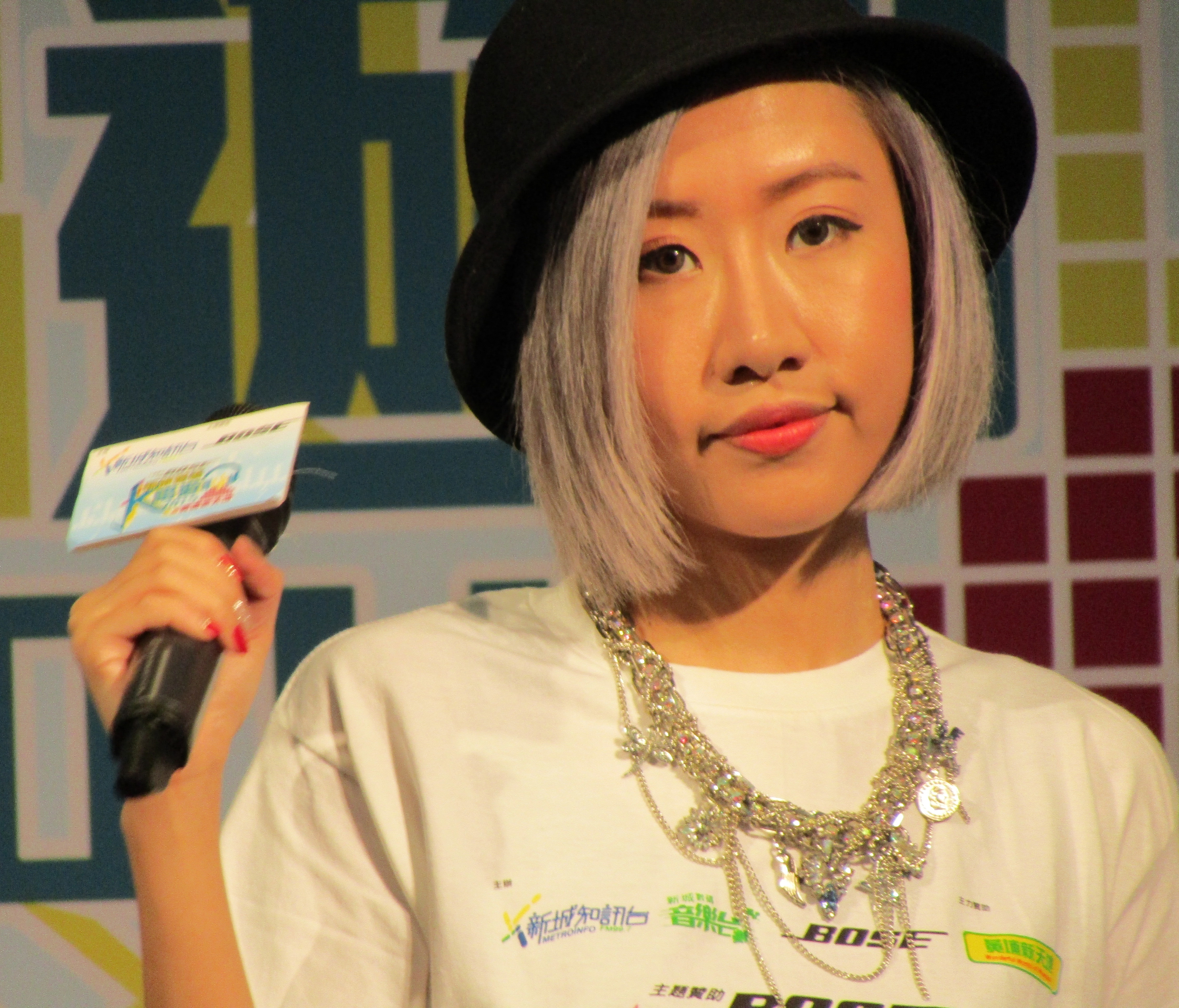 Cherry Fung is singing at Wonderful Worlds of Whampoa, Hung Hom